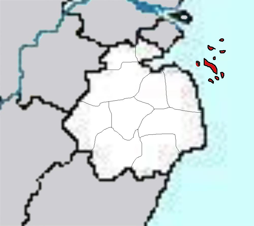 Maps of Zhejiang Province of China